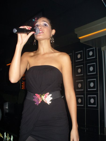 Vessy performing at club LA, Sofia